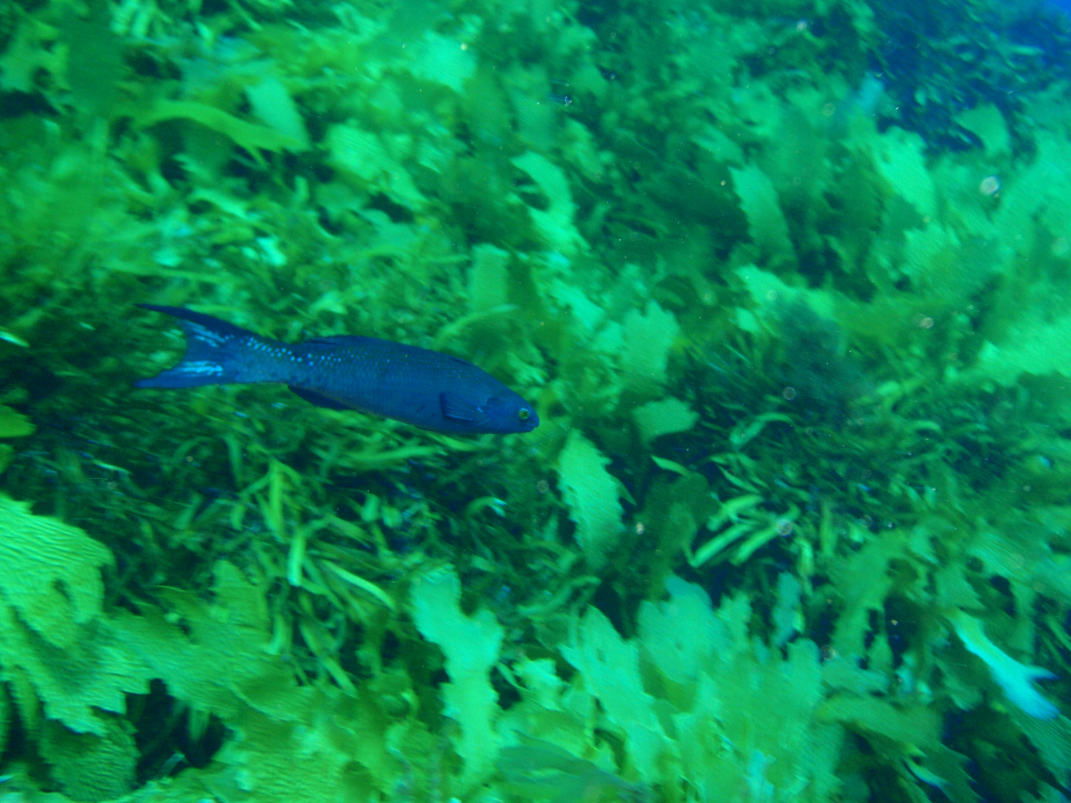 Herring cale Olisthops cyanomelas at Seal cove, Breaksea Island, in King George Sound, Western Australia